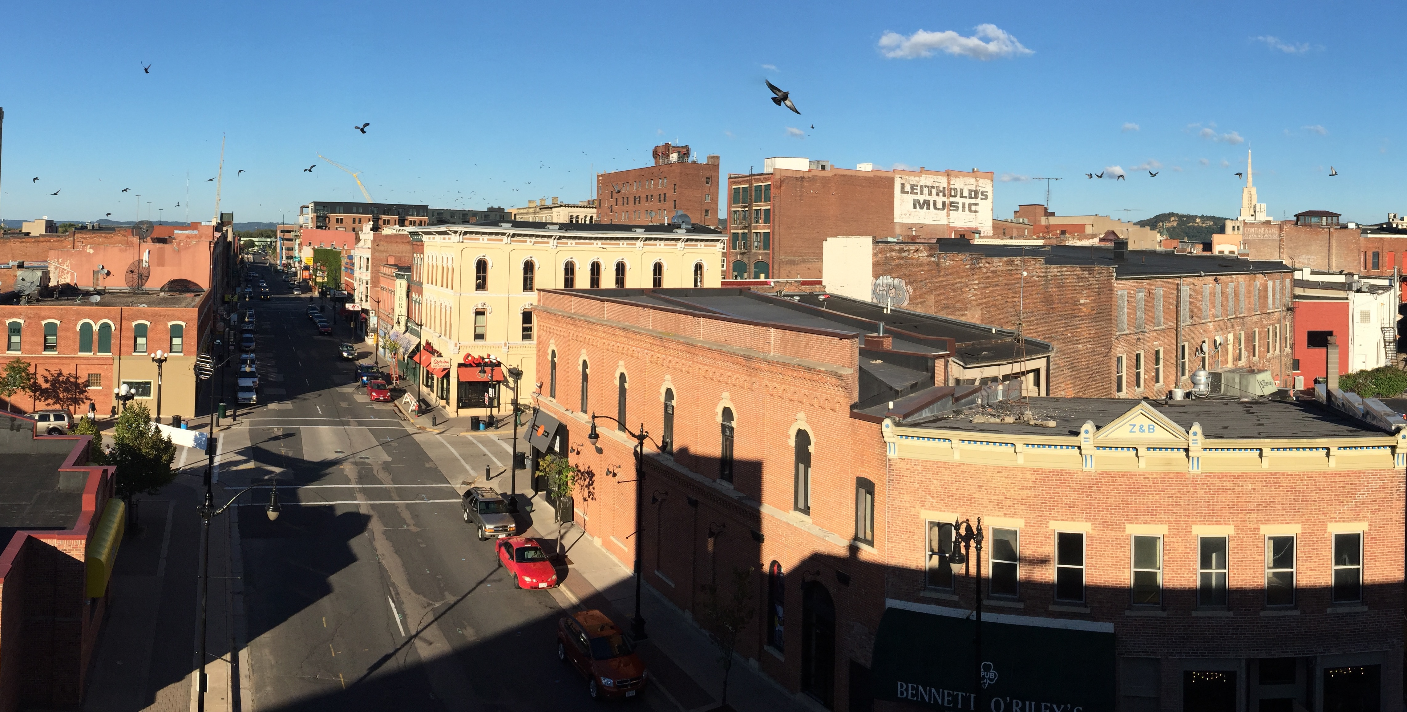 Aerial photo of Downtown La Crosse looking north up 3rd Street.